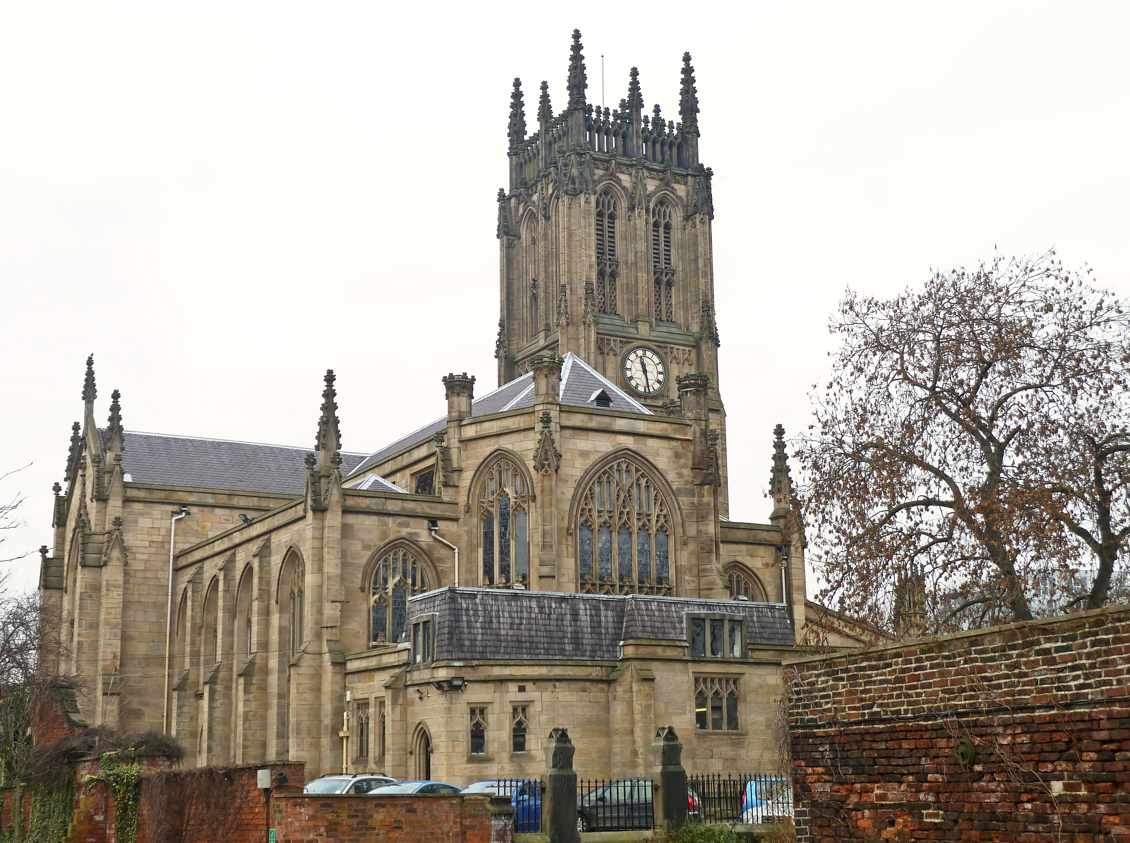 St Peter, Leeds (Leeds Parish Church)